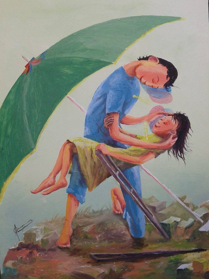 Painting by Elito Circa